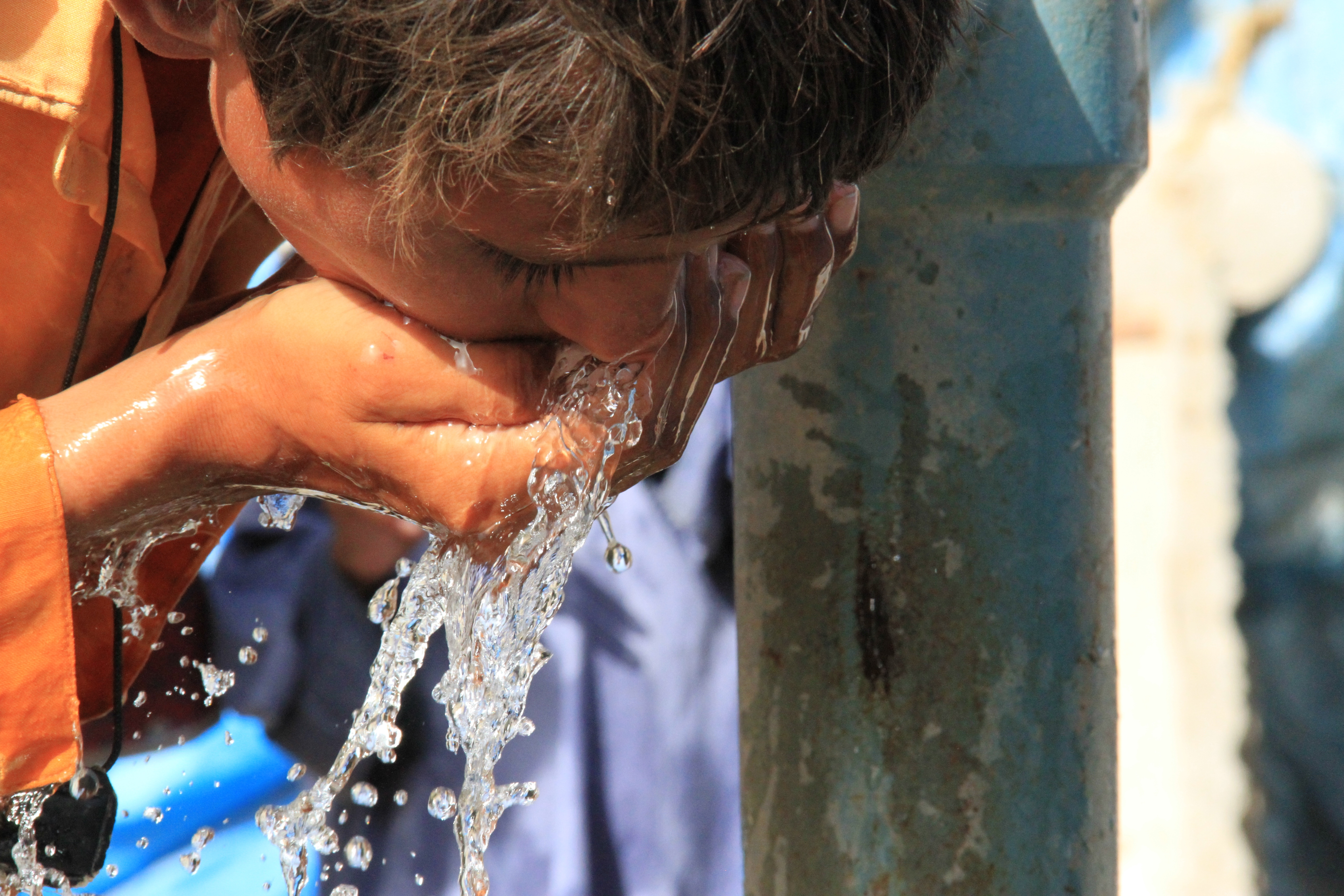 It is one year since Pakistan was hit by one of the largest natural disasters the world has ever seen. The flooding caused by 10 years worth of rain falling in just two weeks resulted in extreme flooding across much of the country. A staggering 14 million people were forced to flee their homes, thousands of schools were destroyed, and agriculture was wiped out across vast areas. The UK responded swiftly and significantly. UK aid helped millions of people, initially by providing emergency shelter, food, healthcare, clean drinking water and sanitation. Later it helped people to rebuild their lives and become self-sufficient again by constructing flood resistant brick homes, replacing bridges and schools, and providing seeds, livestock, jobs and tools. All this will help reduce long term dependency on aid. Emergency aid from the UK has included providing: - Clean water to around 2.4 million people - Toilets and sanitation to some 1.2 million people - Heath and hygiene education to around 2.5 million people on how to avoid potentially fatal diseases - Shelter to more than one million people, including 13,400 flood resistant brick houses, each big enough to house a family of up to eight people - Wheat and vegetable seeds, fertiliser, animal feed and veterinary services to approx 895,000 people - 200,000 children with education by repairing schools, as well as accelerating a project to build forty new schools in Khyber Pakhtunkhwa benefitting another 9,000 boys and girls To find out more about how the UK is helping in Pakistan, please visit: Image credit: Vicki Francis/Department for International Development Terms of use This image is posted under a Creative Commons - Attribution Licence , in accordance with the Open Government Licence . You are free to embed, download or otherwise re-use it, as long as you credit the source as 'Vicki Francis/Department for International Development'.